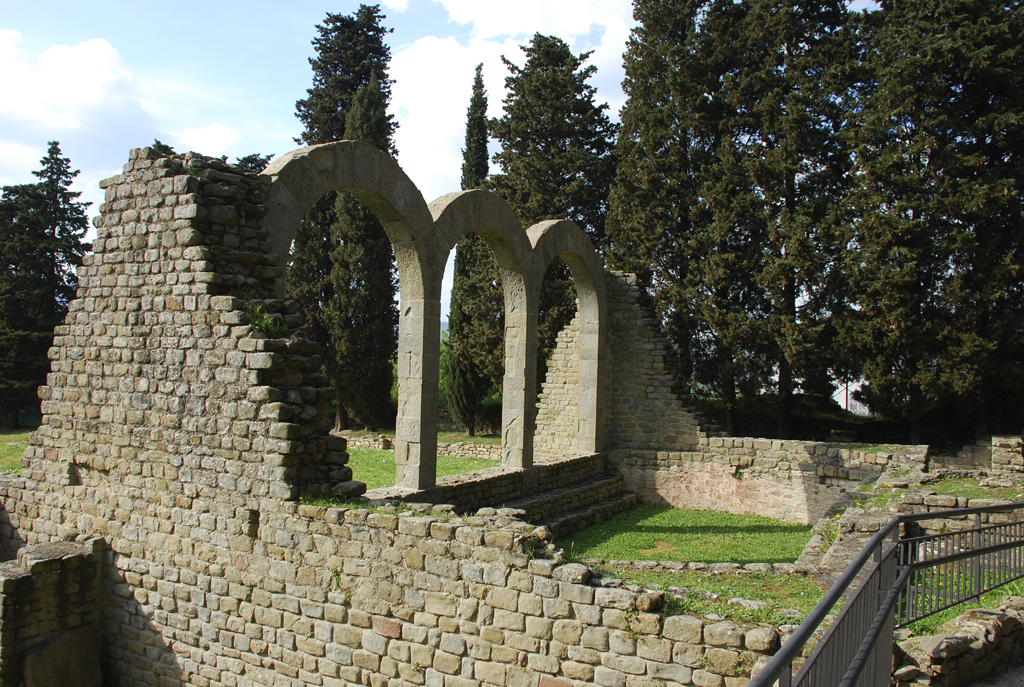 Fiesole archaeological site, Florence, Italy. Thermae.